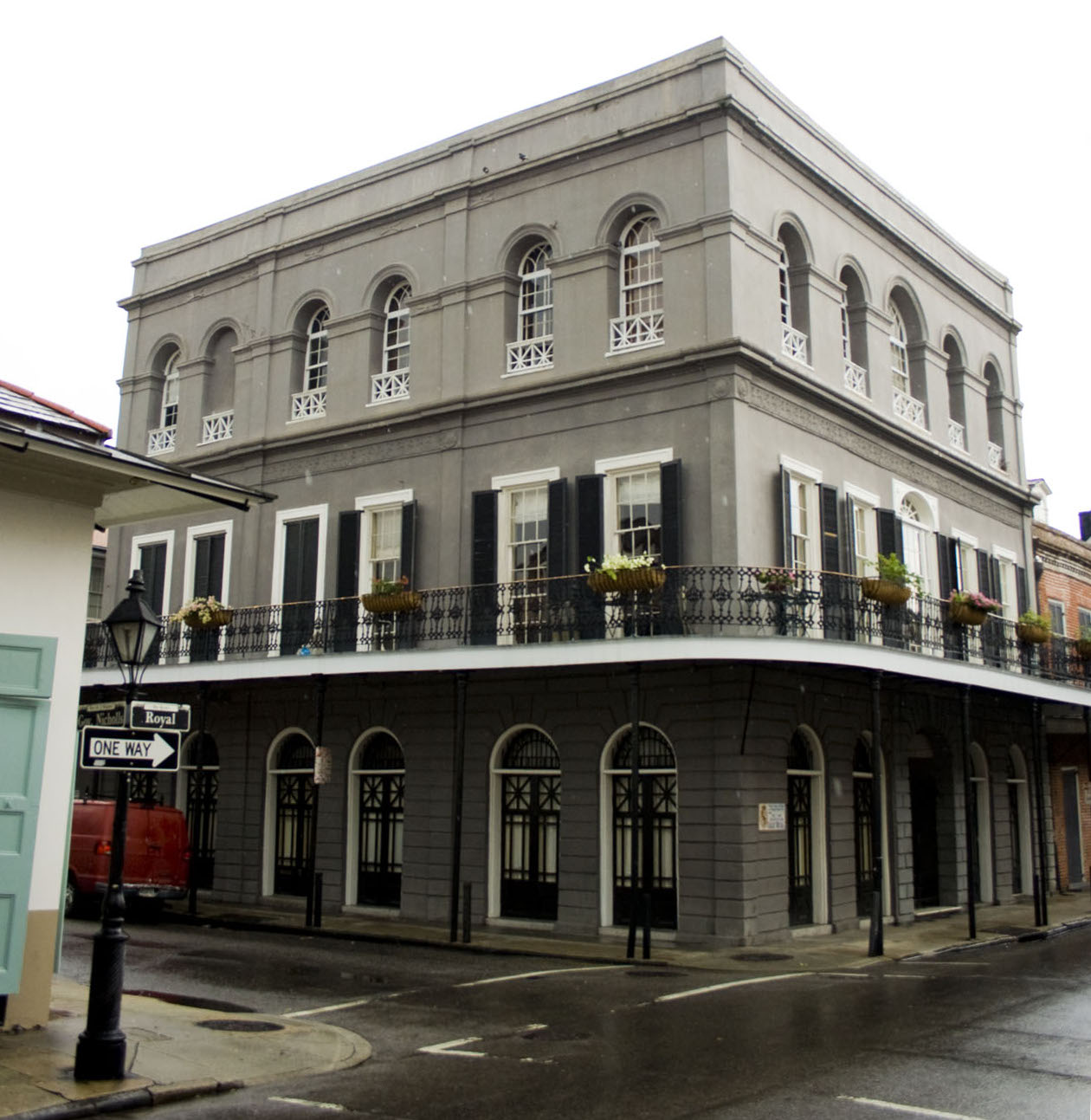 The LaLaurie residence in 1140 Royal Street, New Orleans, photographed in September 2009.